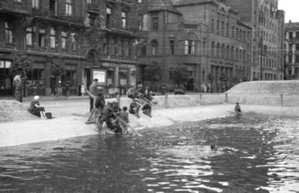 Month before WarsawUprising: Children swimming in firefighting water reservoir at Napoleon Square. Behind them Goldstan's townhouse at Plac Napoleona 5 / Moniuszki 1 street and townhouse at Plac Napoleona 7 / Moniuszki 2 street. Further visible lower floors of Prudential building.